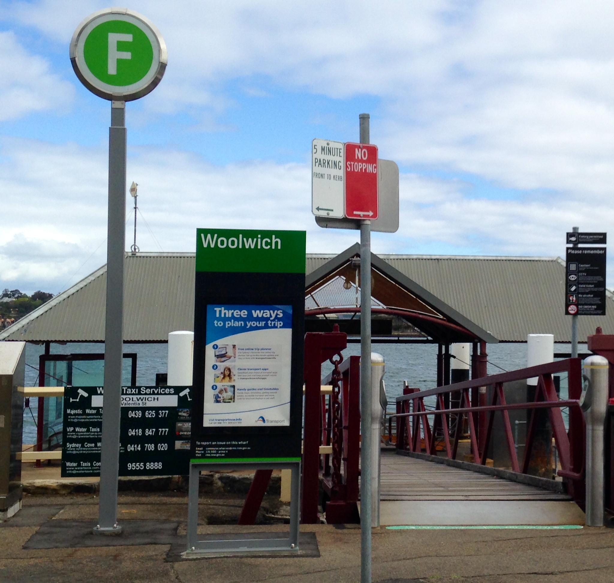 2015 photo